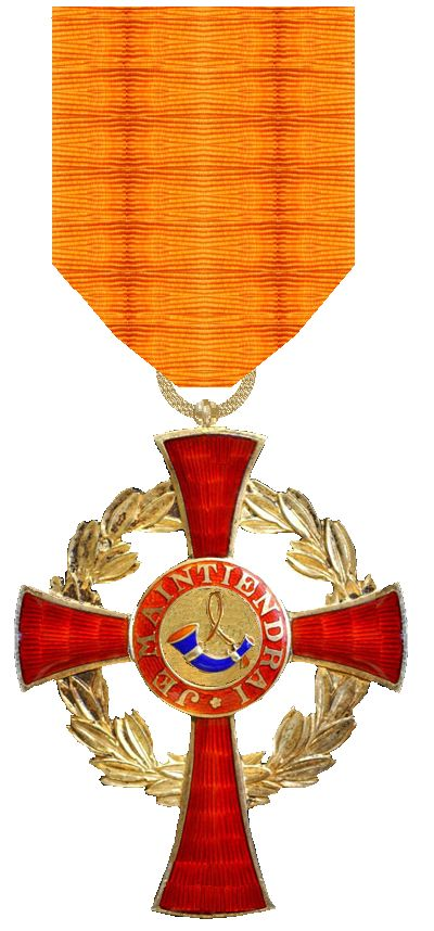 Order of Orange, Knights cross